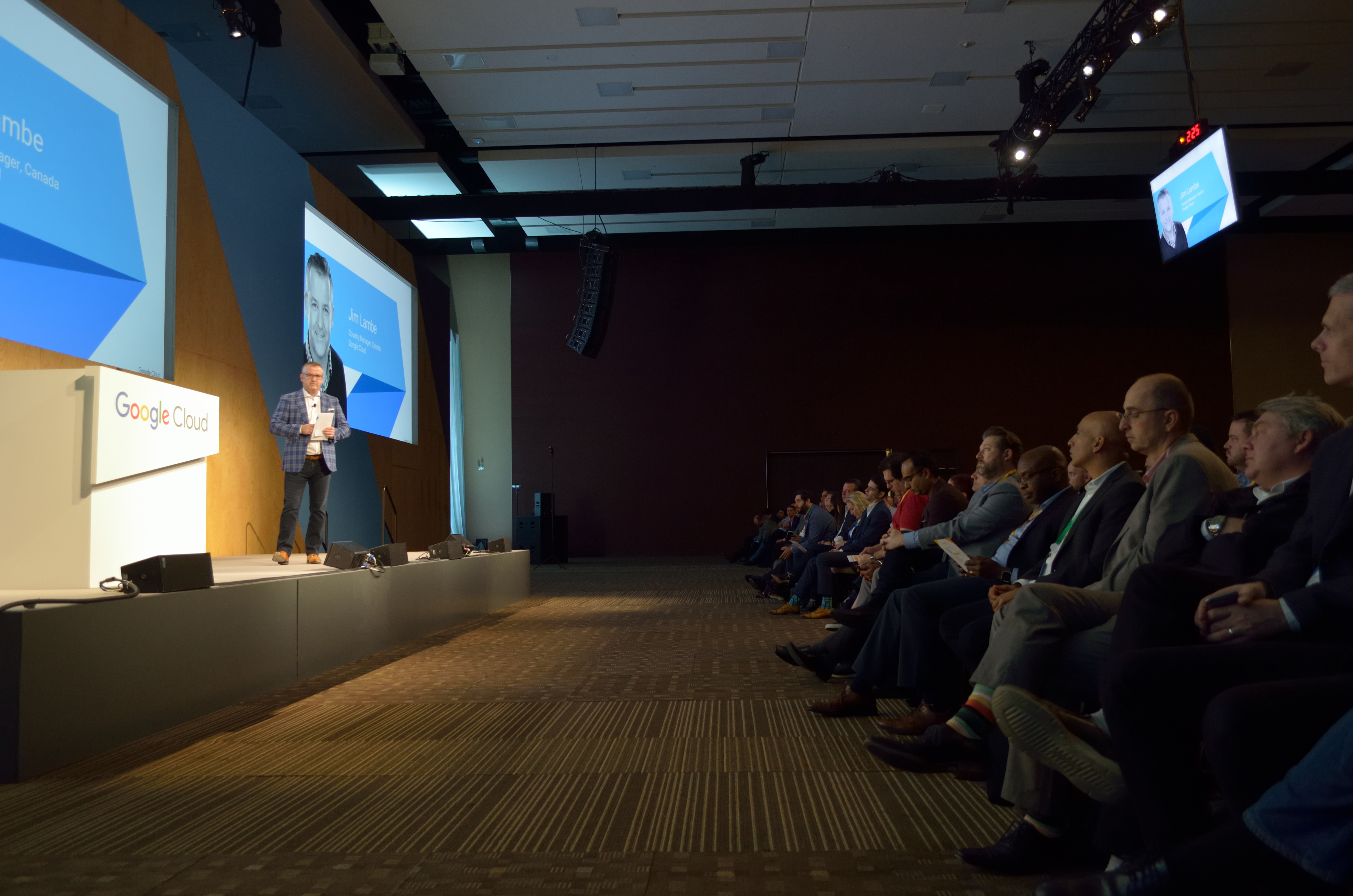 Keynote at Google Cloud Summit